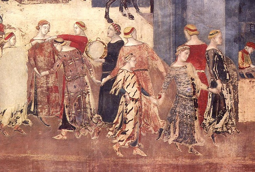 Detail from Allegory of Good Government by Ambrogio Lorenzetti, Palazzo Pubblico, Siena, 1338-40